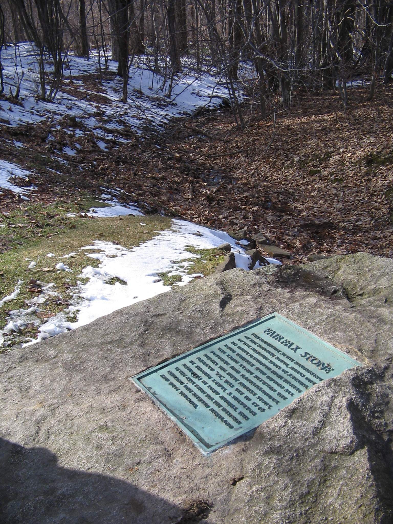 Fairfax Stone, the source of the Potomac River